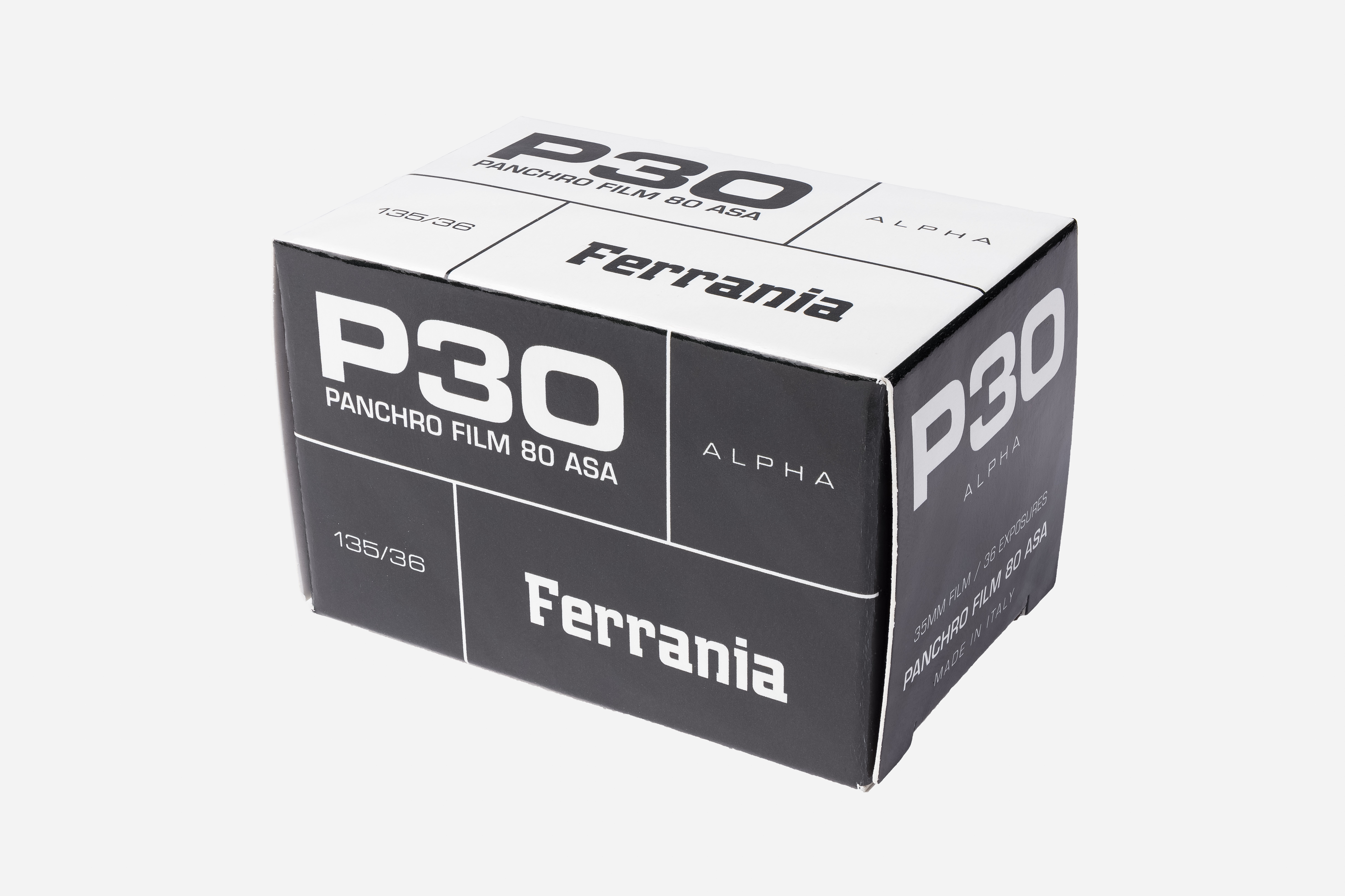 Ferrania P30 is a panchromatic black and white film for 35mm cameras with a nominal sensitivity of 80 ASA.